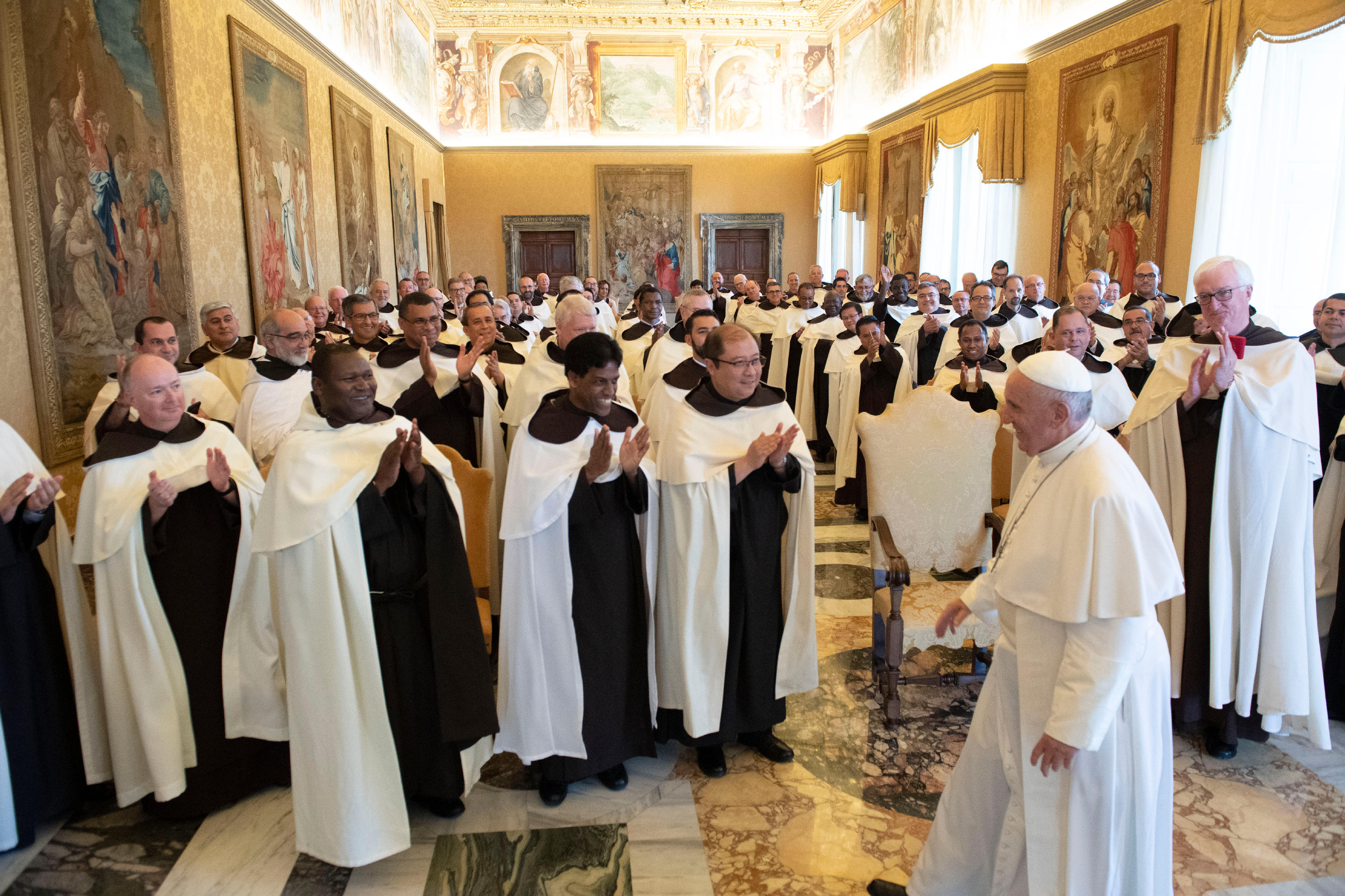 carmelites